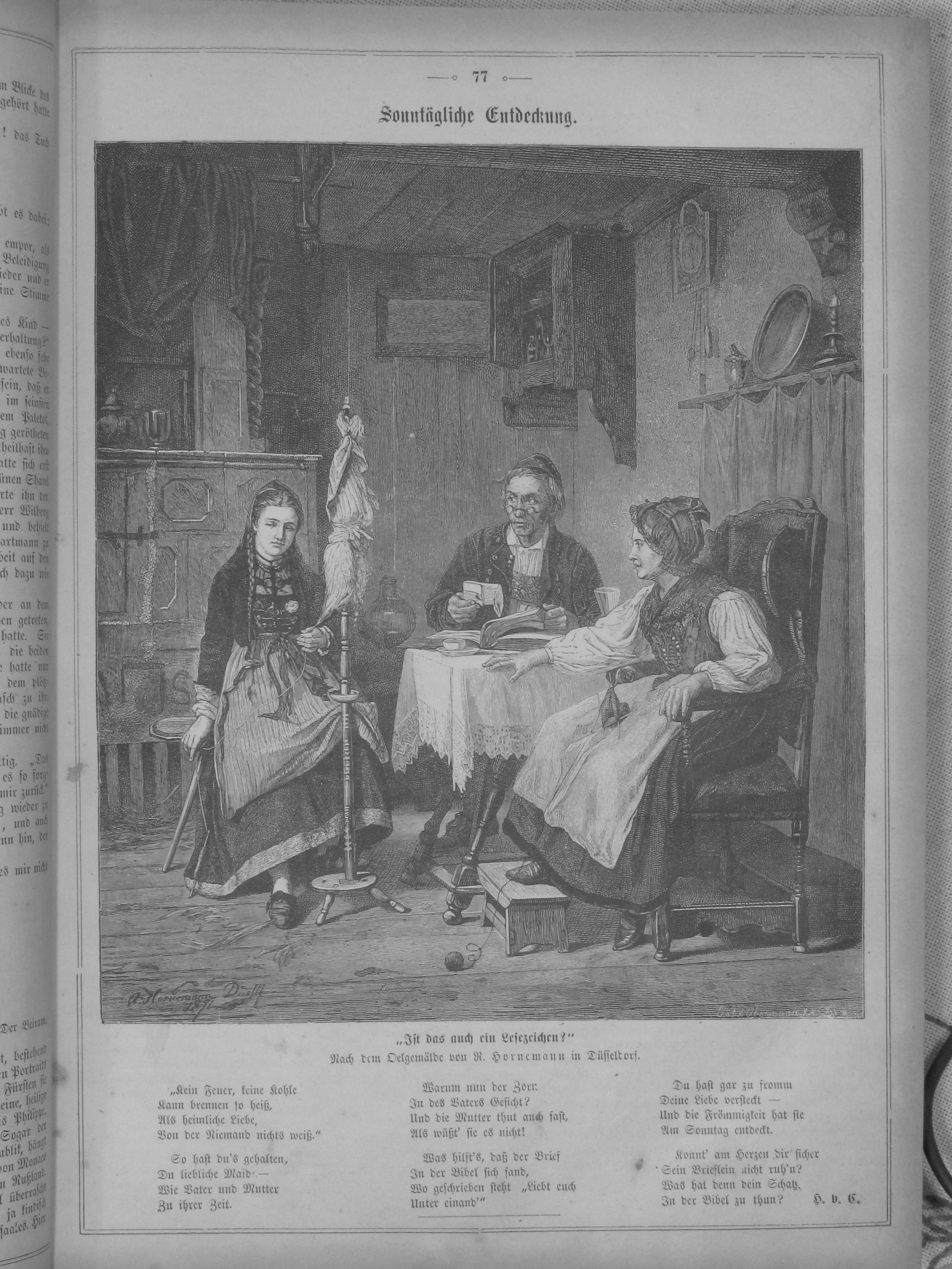 Page 77 from journal Die Gartenlaube for 1873.Extracted image (if any): File:Die Gartenlaube (1873) pic 077.JPG - hi res, ~2.5 MB.